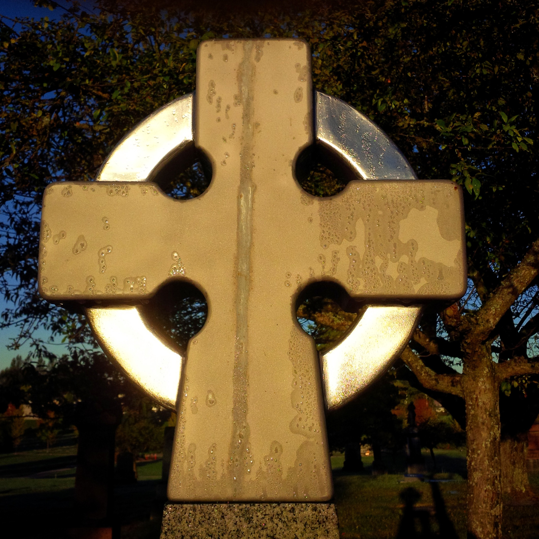 Photo of the metal fabricated monument topper for the grave of Malcolm Alexander MacLean, 1st Mayor of the City of Vancouver.